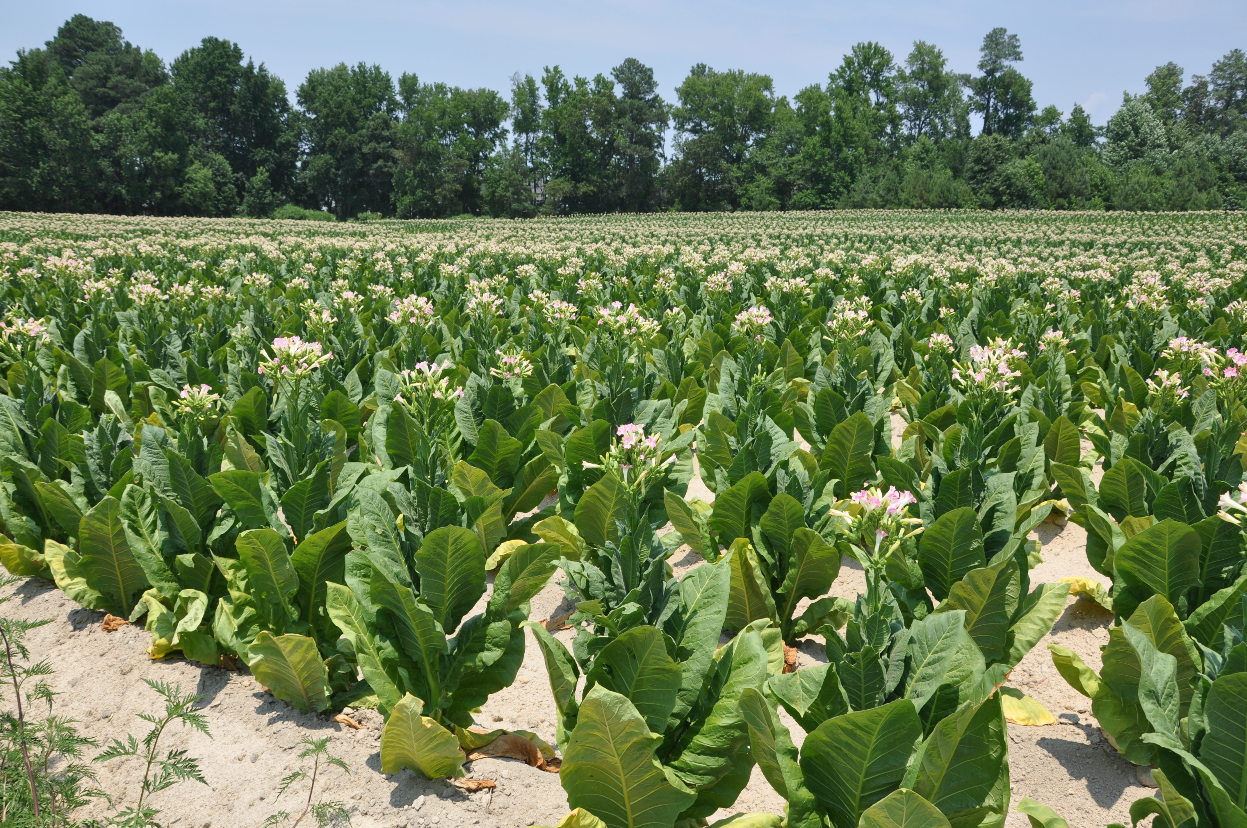 Tobacco field, Rolesville, NC